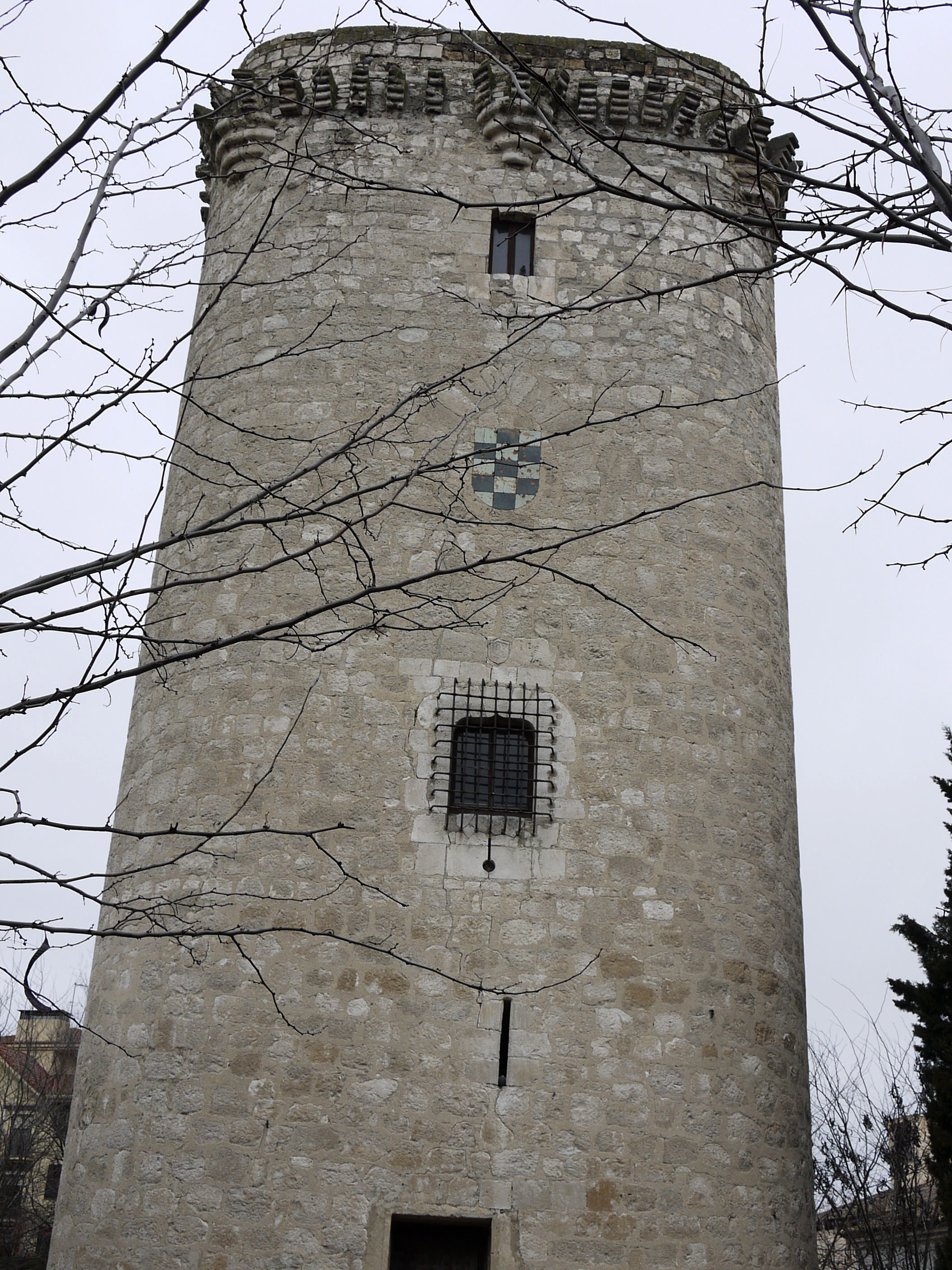 Pinto, Madrid, Spain. Tower of Éboli.